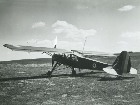 Fieseler Fi 156